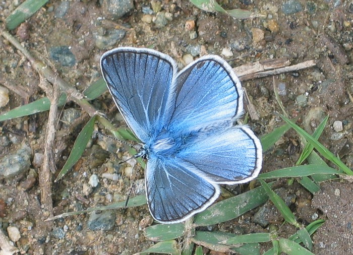 Greece, Thessalia, Pilion, near Kissos